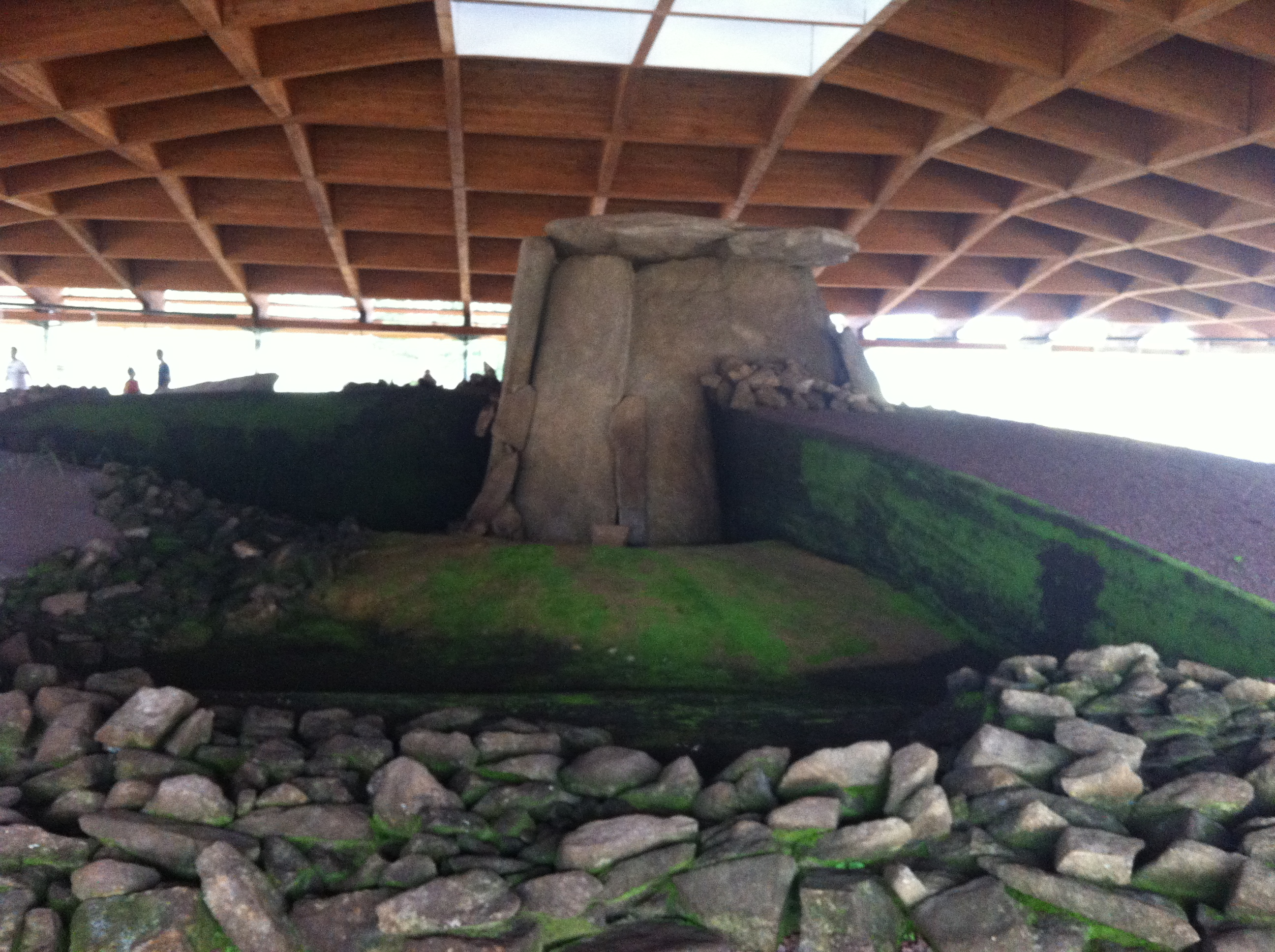 Back side of Dombate dolmen, where you can see the real high of the stones.